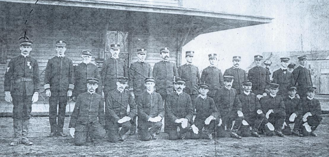 North Carolina State Naval Militia EC Unit